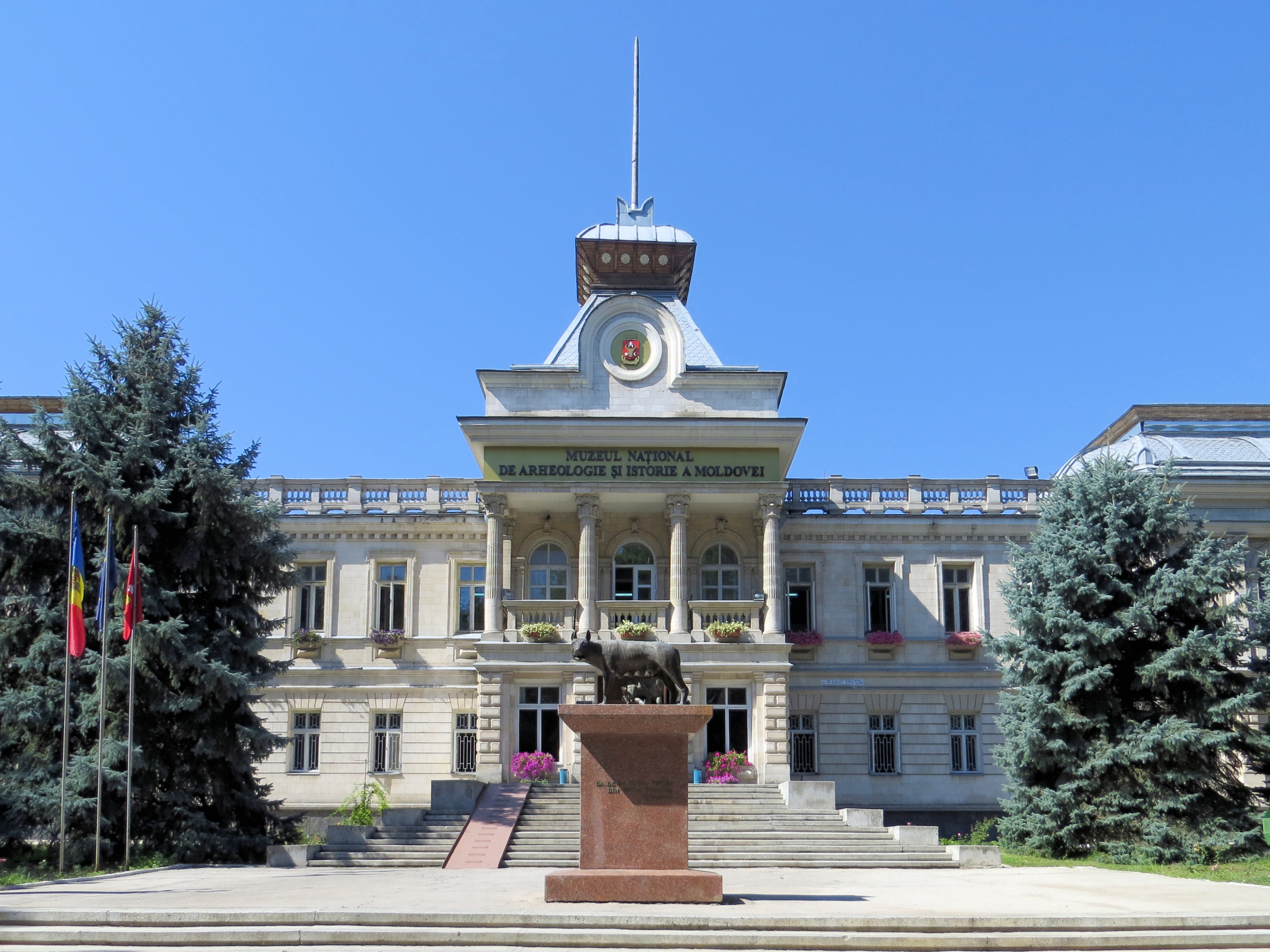 The Museum of Archeology and History of the Republic of Moldova, Chișinău.